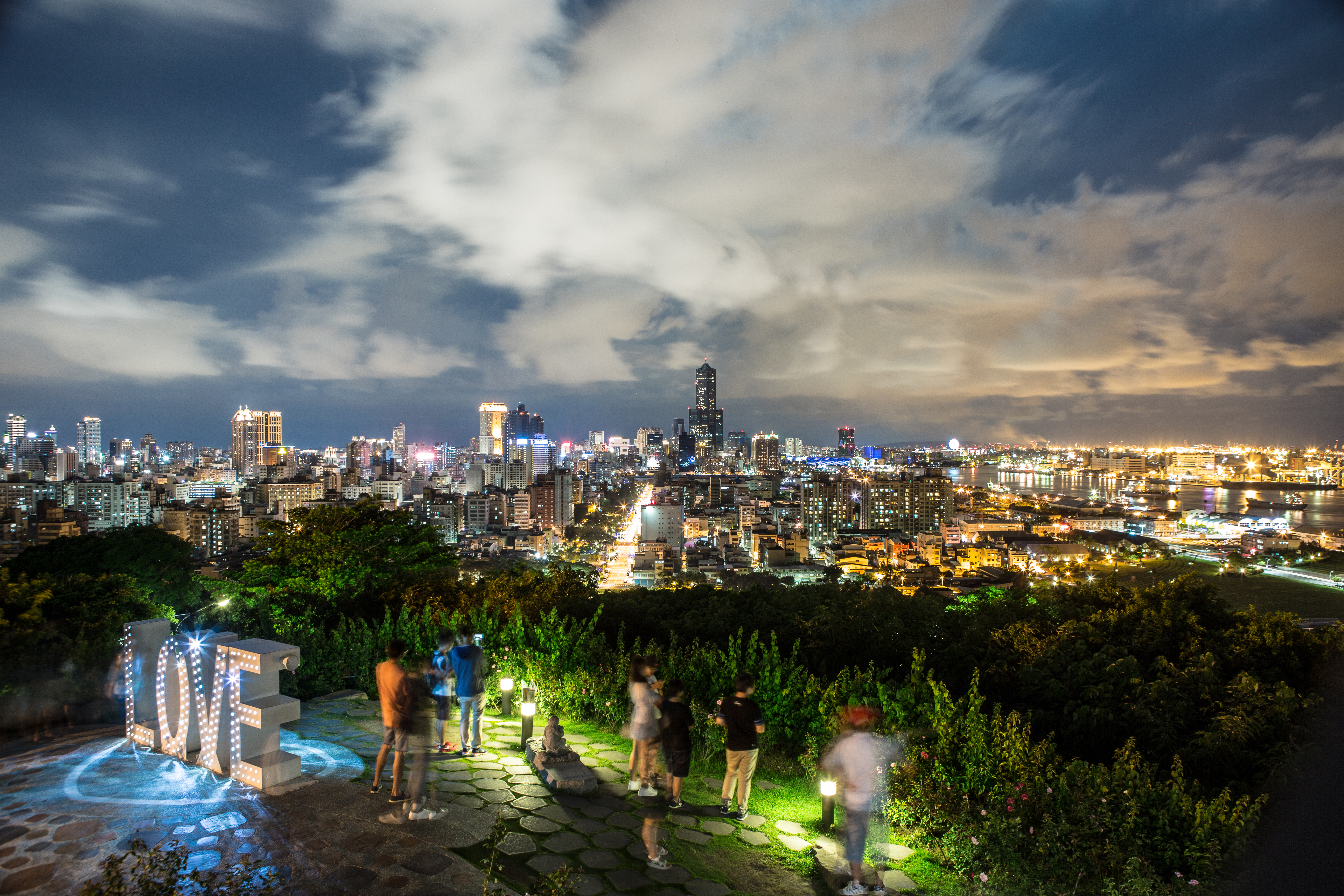 Landscape of Kaohsiung, Taiwan from Kaohsiung Martyrs' Shrine